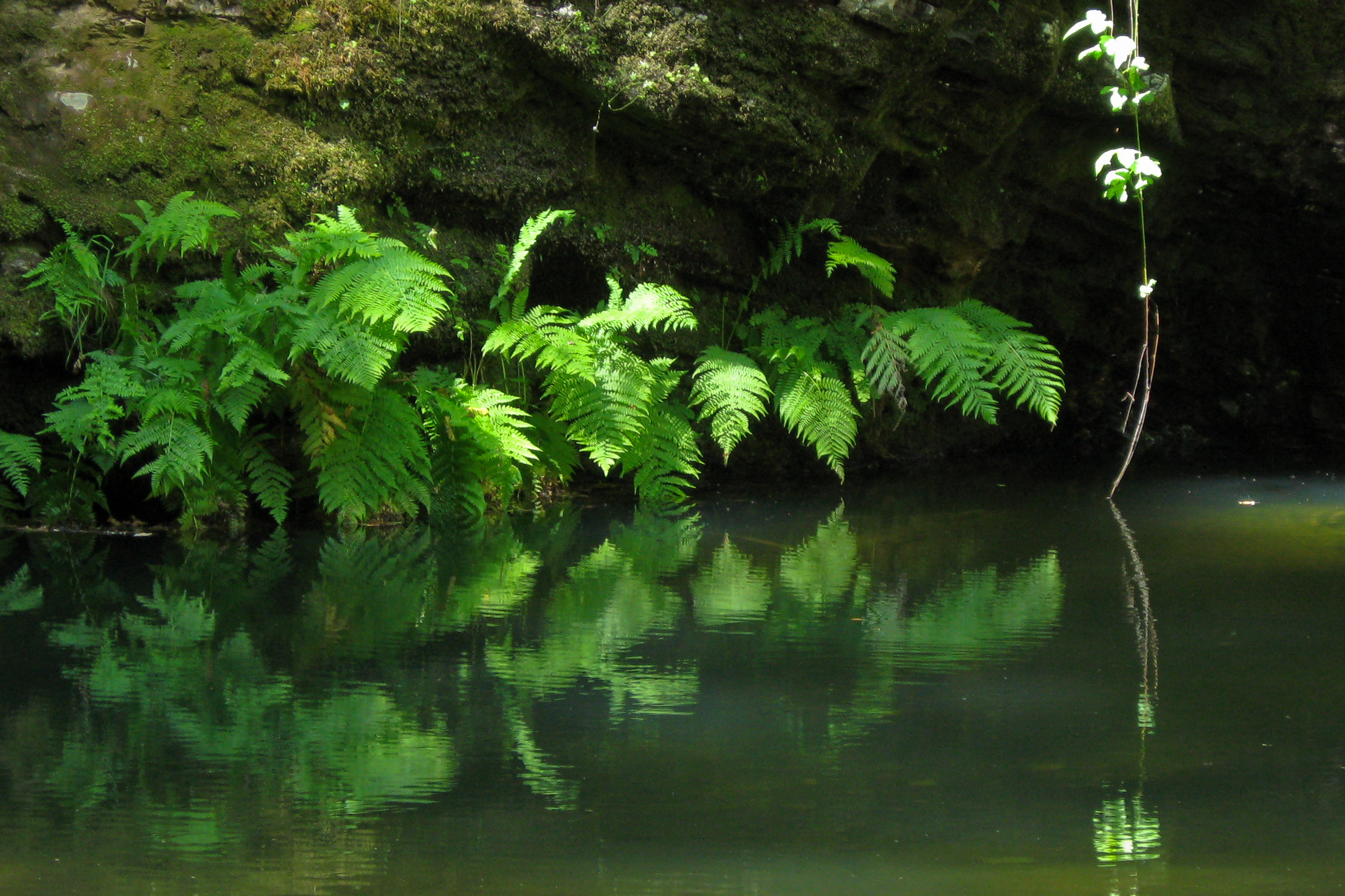 Ferns in Portola Redwoods State Park- Santa Cruz Mountains.